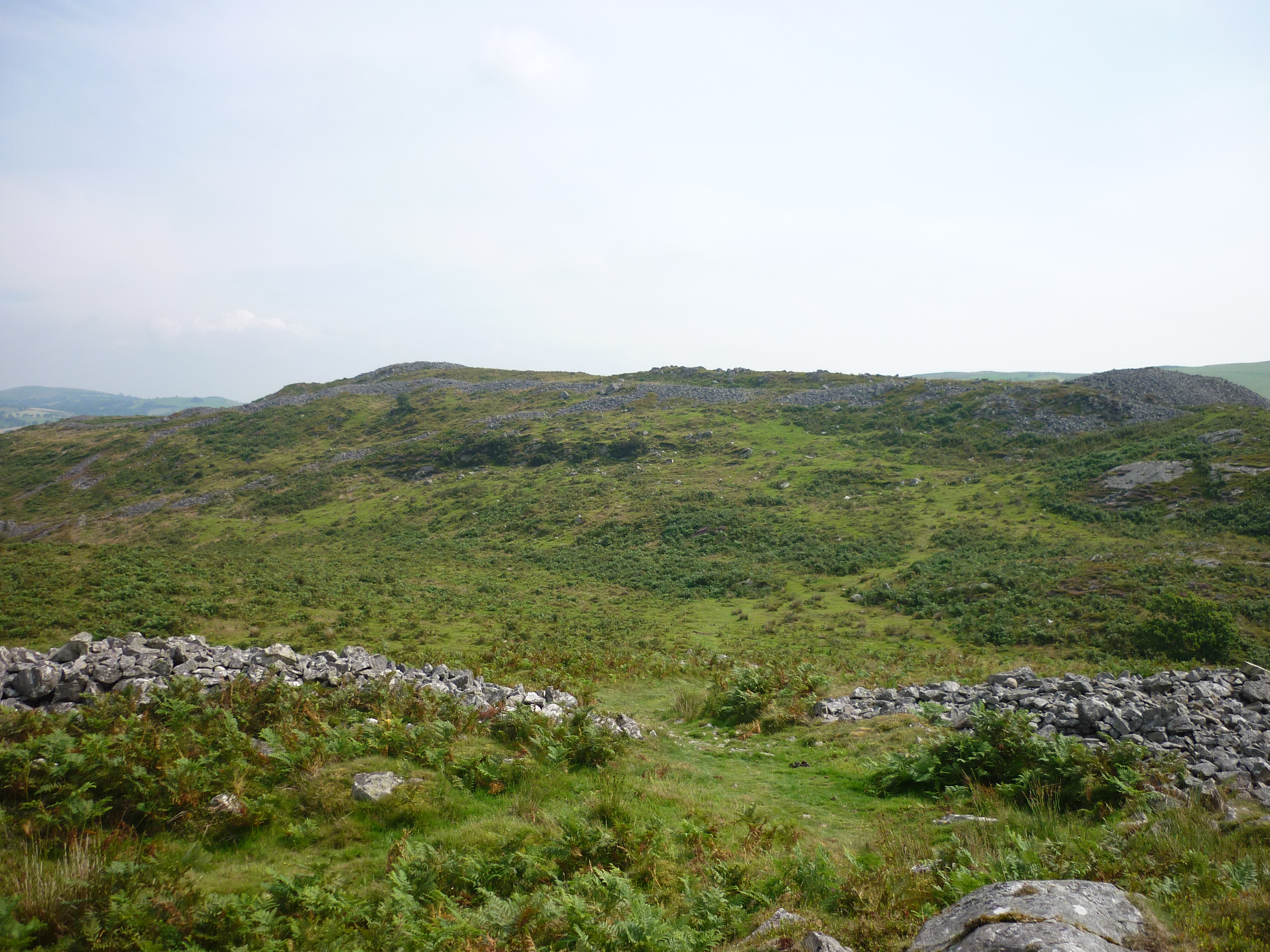 Y Garn Coch, with the remains of the Iron Age fort in Carmarthenshire, Wales